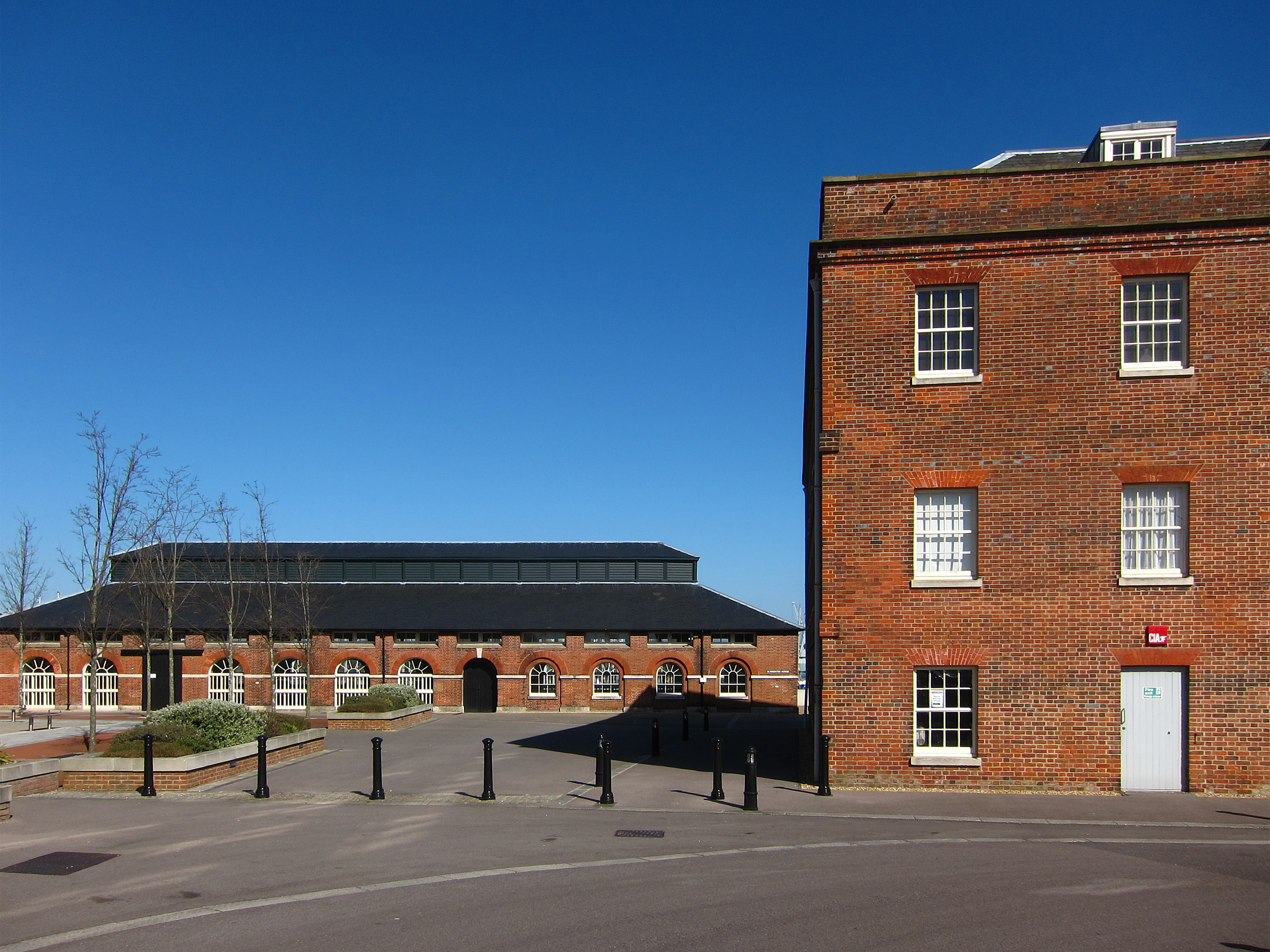 Slaughterhouse Wikidata has entry Q26537082 with data related to this item.